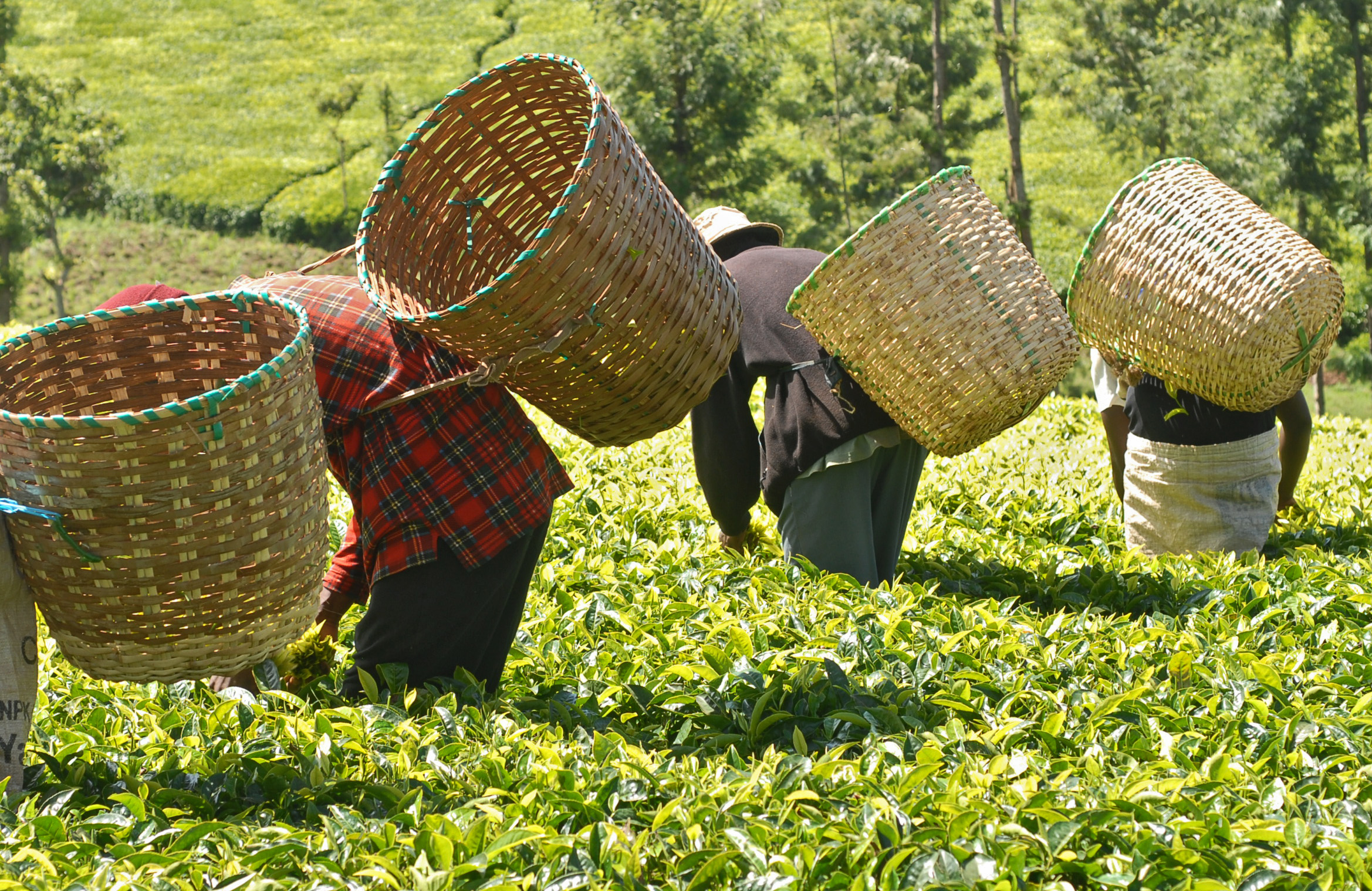 Tea pickers at work (Central Highlands, Kenya December 2009)